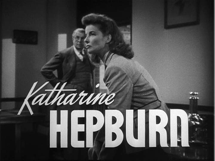 Screenshot of Katharine Hepburn from the trailer for the 1942 film Woman of the Year